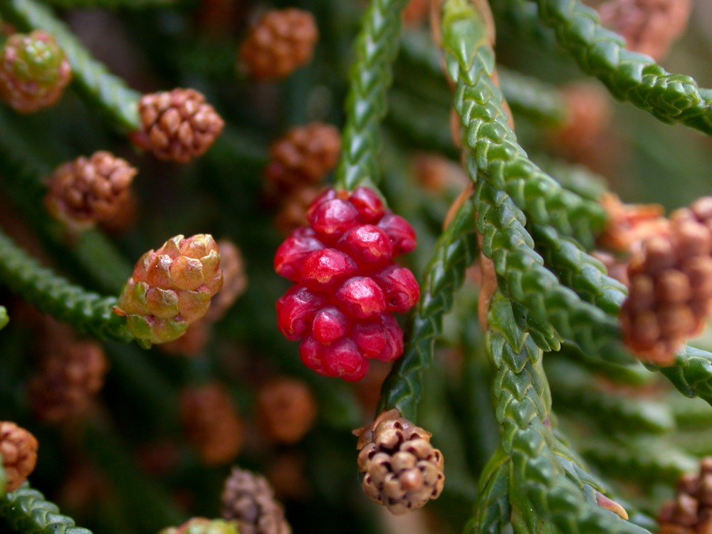 Microcachrys tetragona, Mt. Field